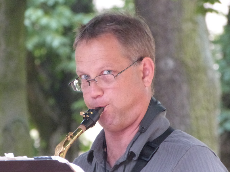 American musician Benjamin Boone (Transatlantic Reed String Project) playing the saxophone at the Erlanger Poetenfest 2012